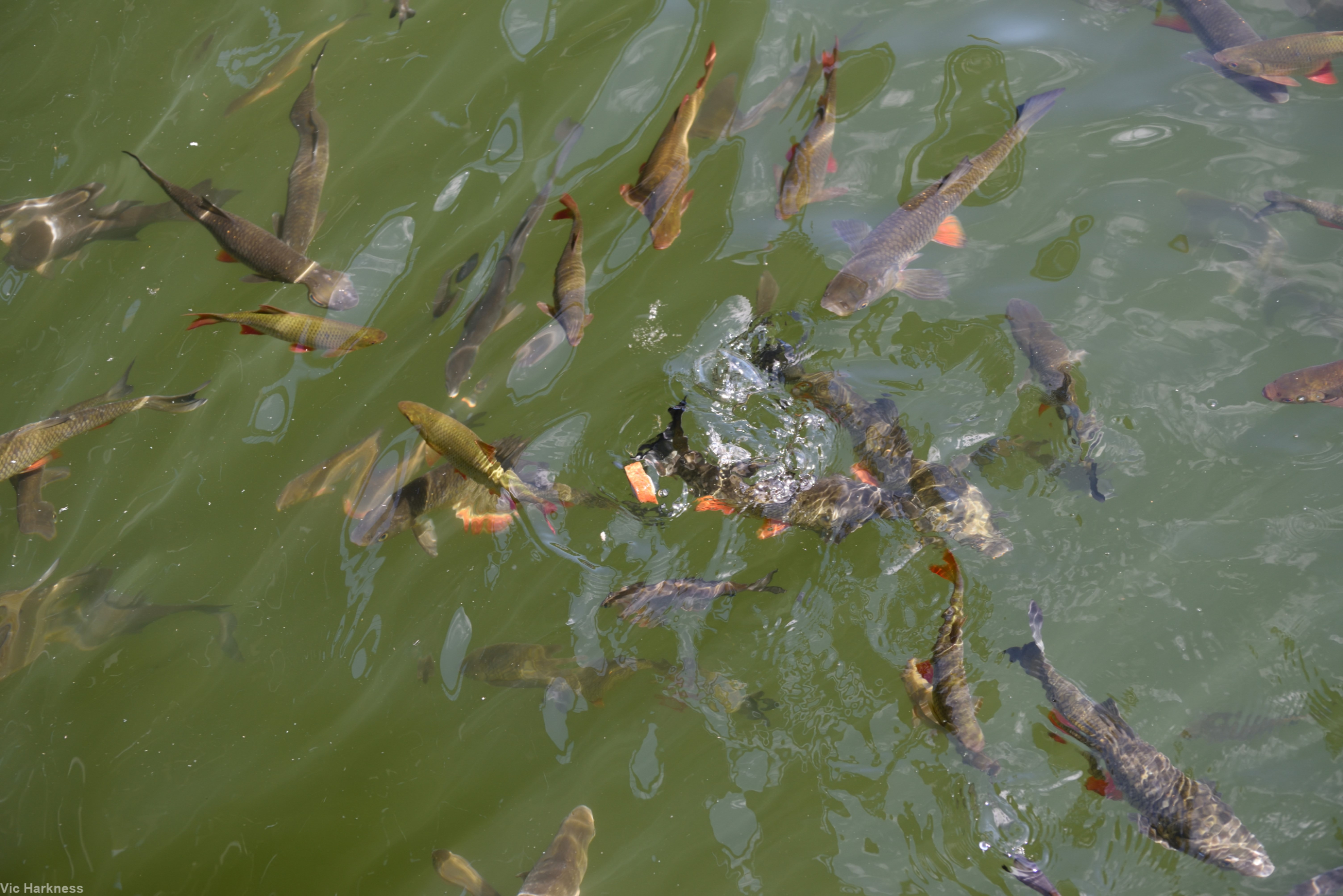 Massive catfish in the Chernobyl Nuclear Power Plant cooling pond.